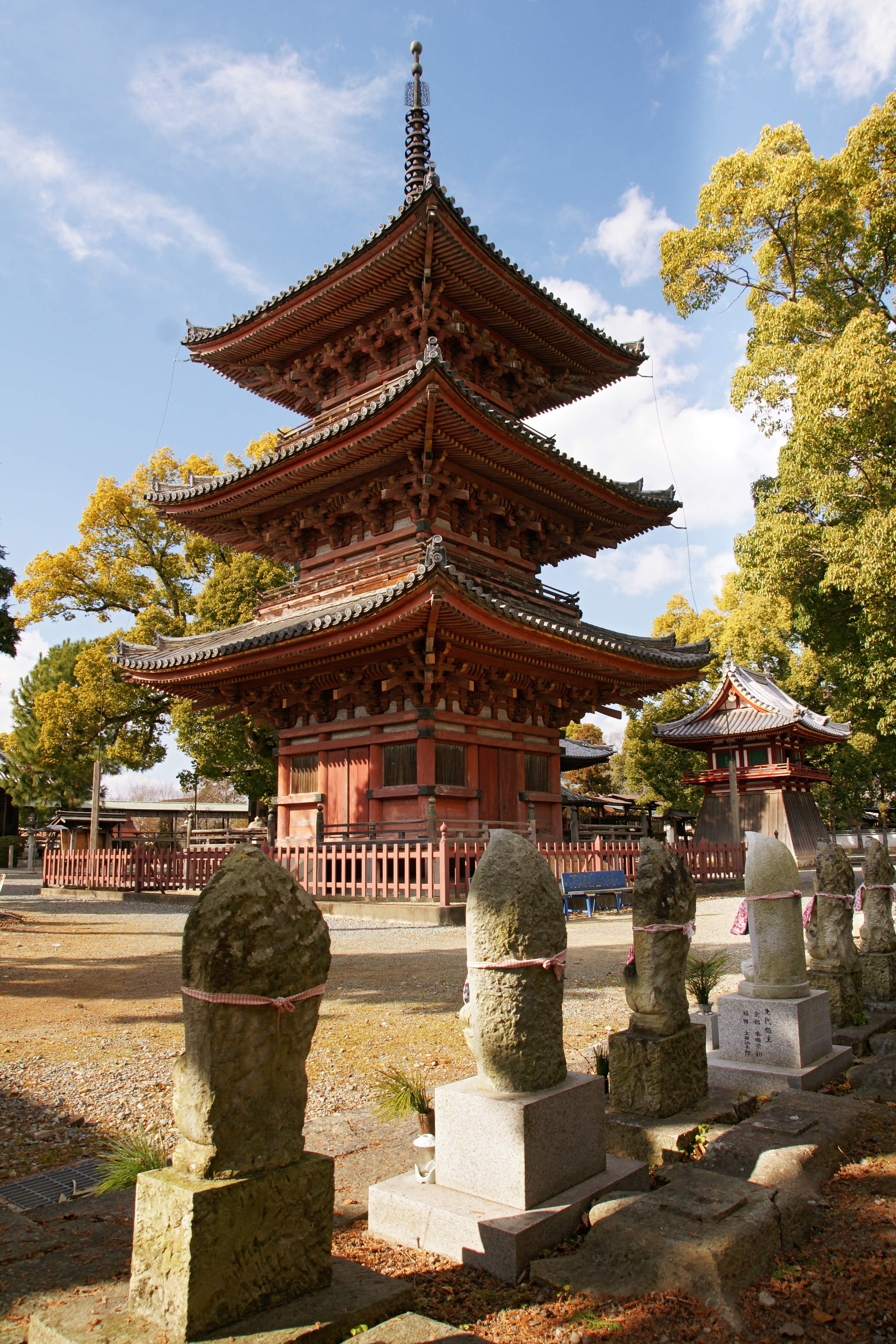 Ikaruga-dera (Hankyu-ji) in Taishi, Hyogo prefecture, Japan.